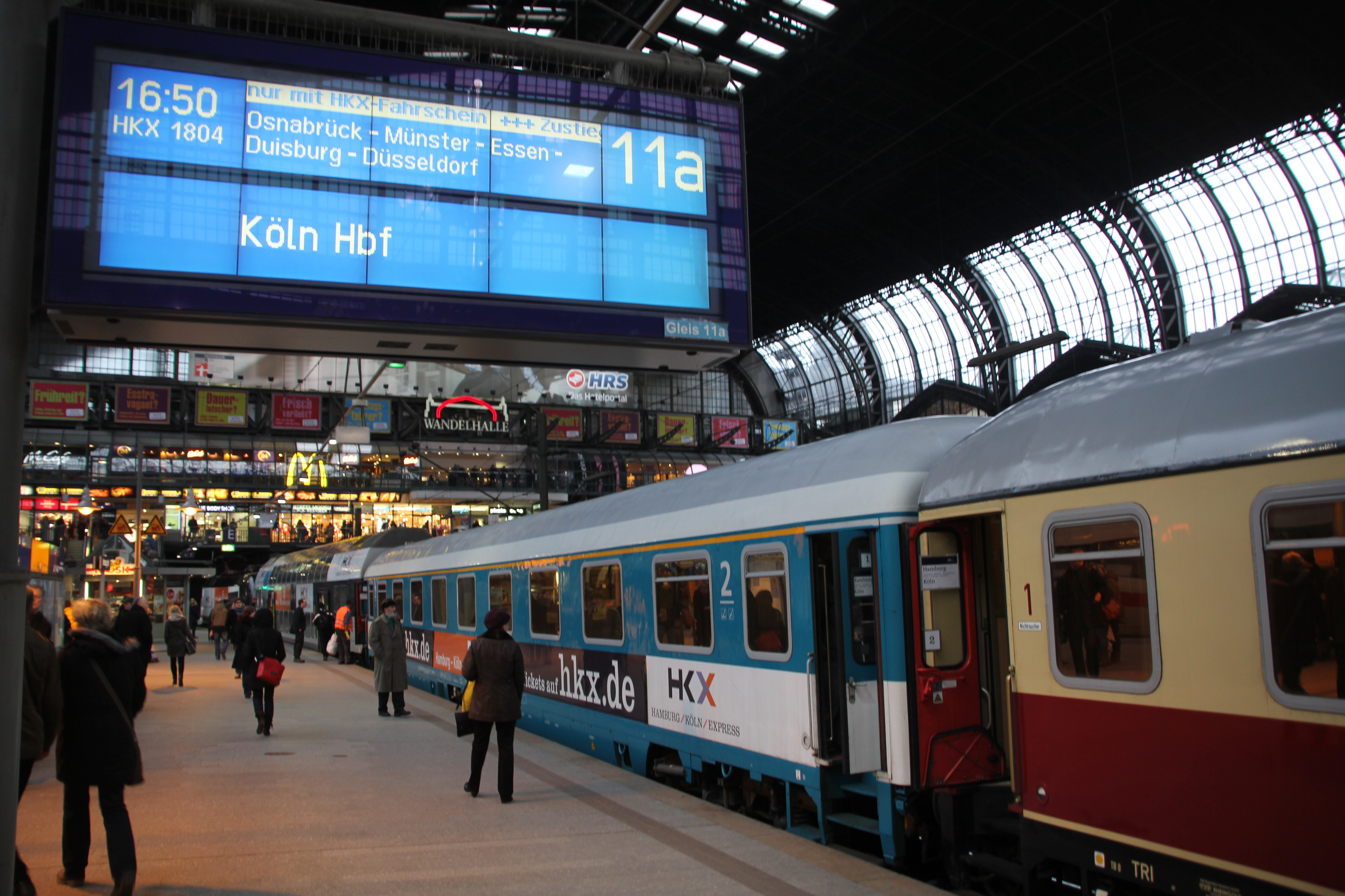 The Hamburg-Köln-Express train on Hamburg Main Station